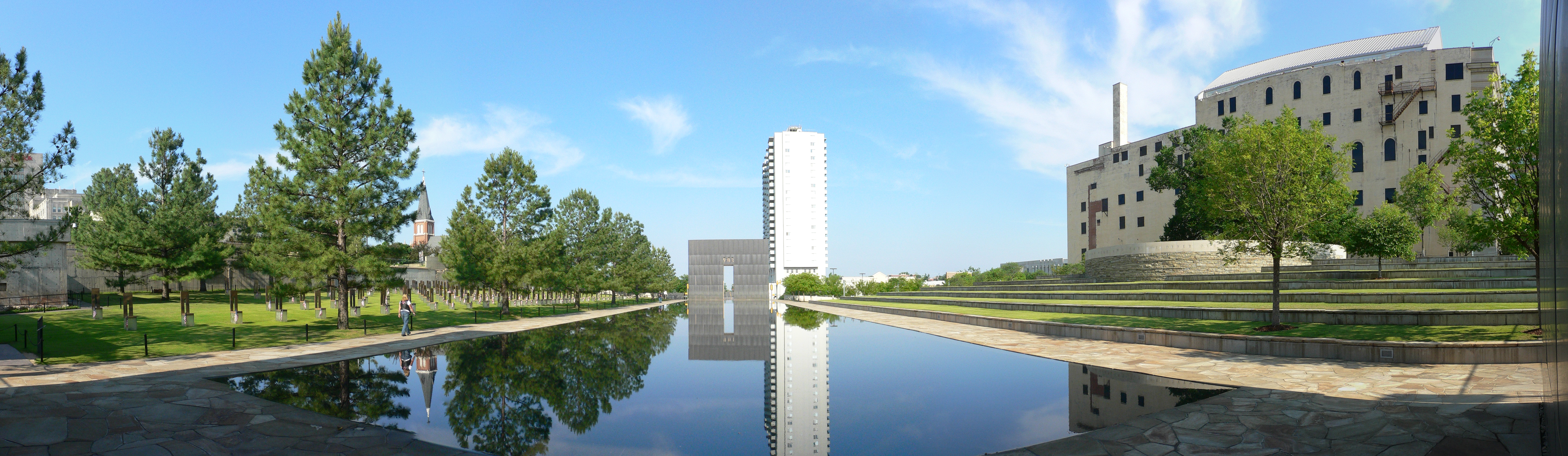 Panoramic picture of the Oklahoma City Memorial